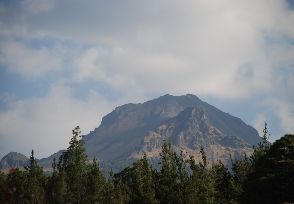 Mount La Malinche